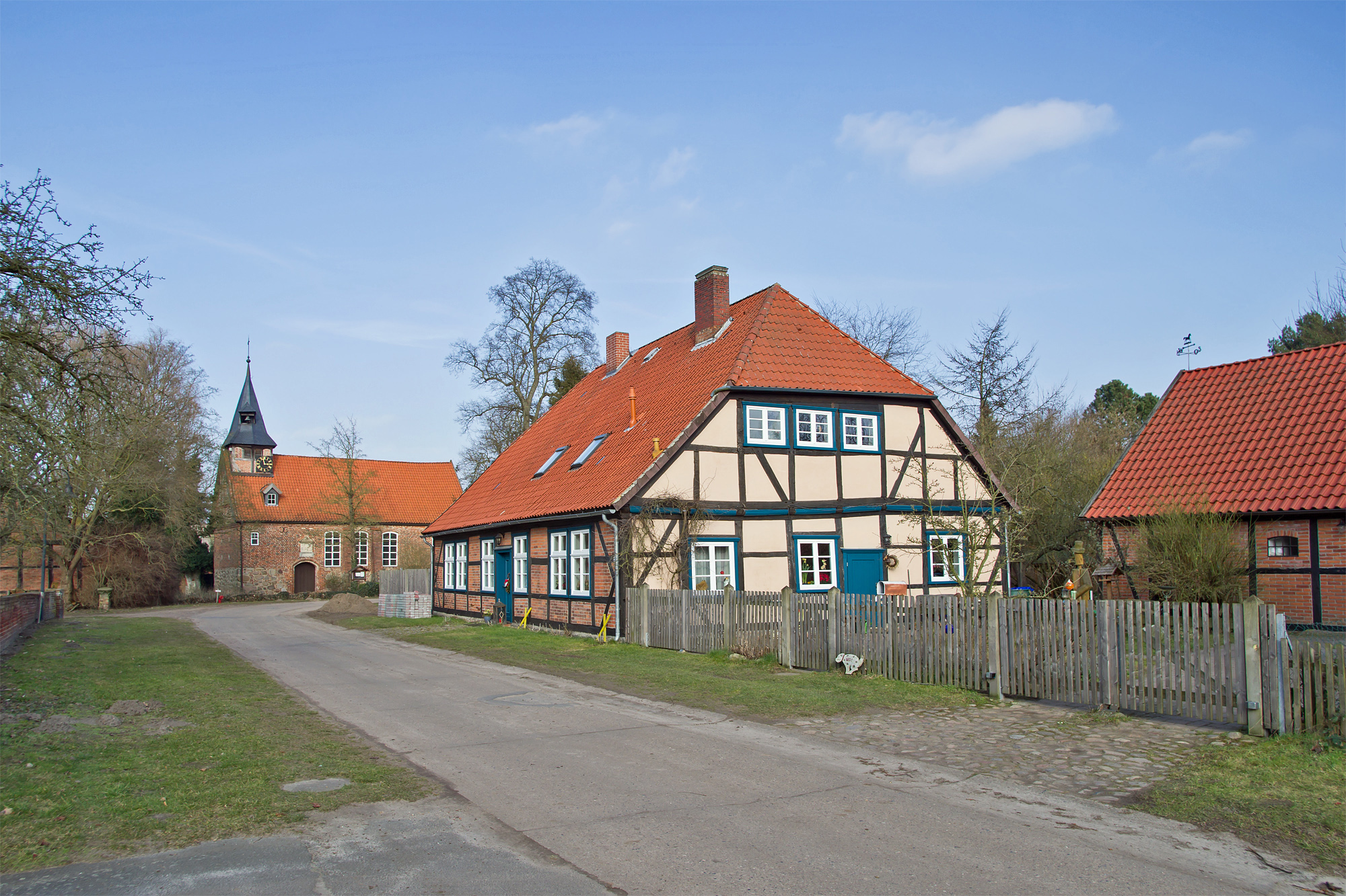 Cultural heritage monuments "No 22" and chapel in the village Breese im Bruche (district Lüchow-Dannenberg, northern Germany); former parsonage, prob. early 19th century.